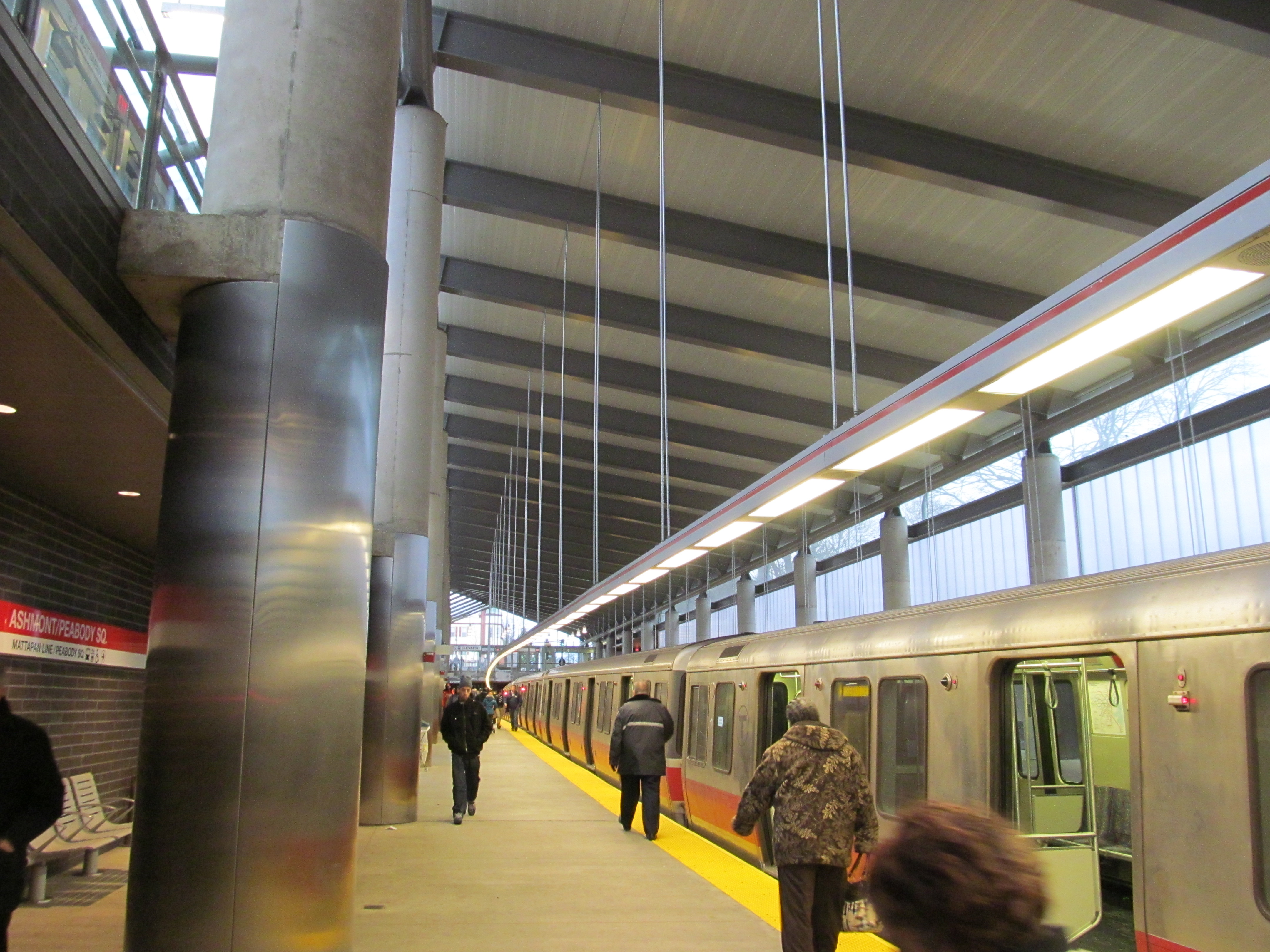 Newly renovated Red Line platform at Ashmont